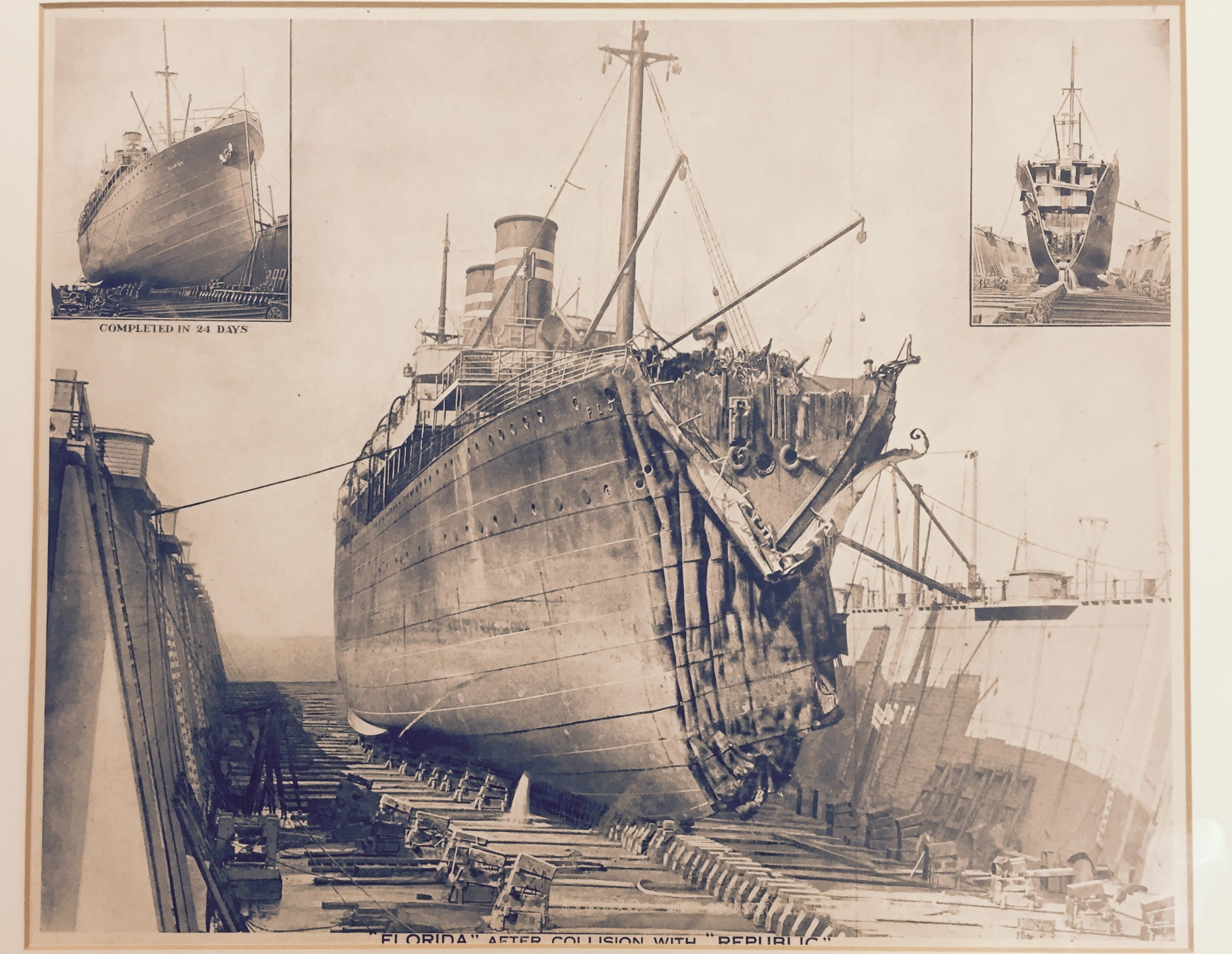 This picture was taken by Martin & Ottaway, a New Jersey marine consulting firm, after the two ships collided with each other.